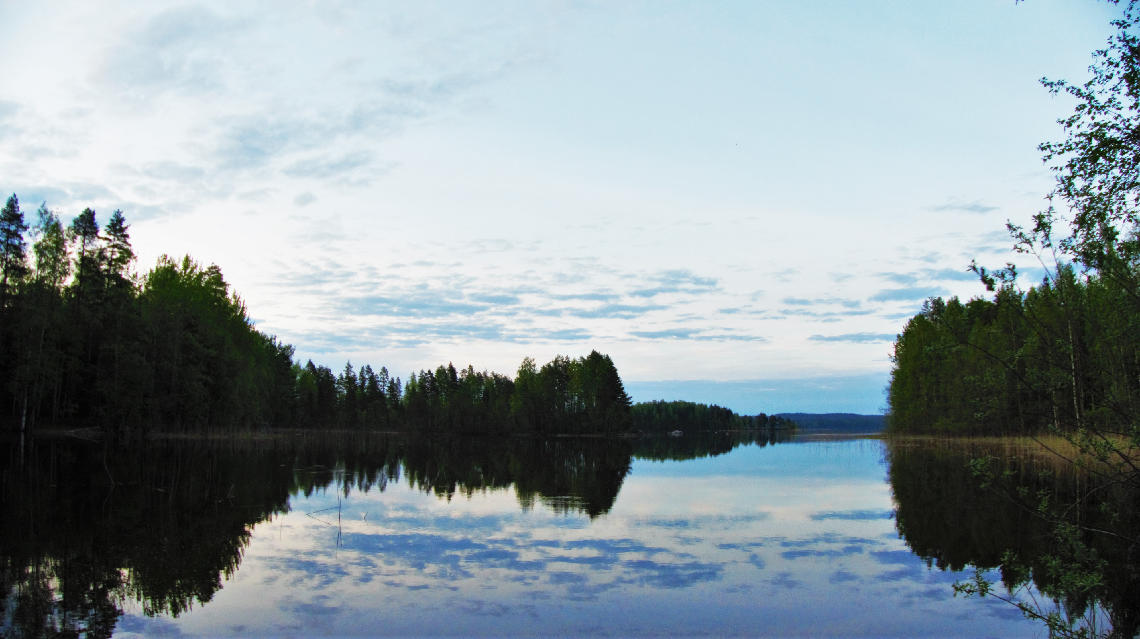 Äijälä, Laukaa